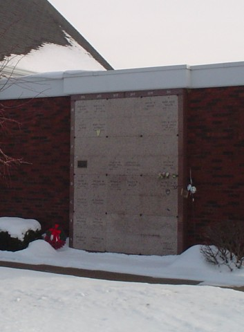 This is a closeup of one of columbarium sections of the St. Joseph's Chapel Mausoleum in Mount Olivet Cemetery, Key West, Iowa. I took this photo in December of 2005. Jesster79 00:31, 26 December 2005 (UTC)